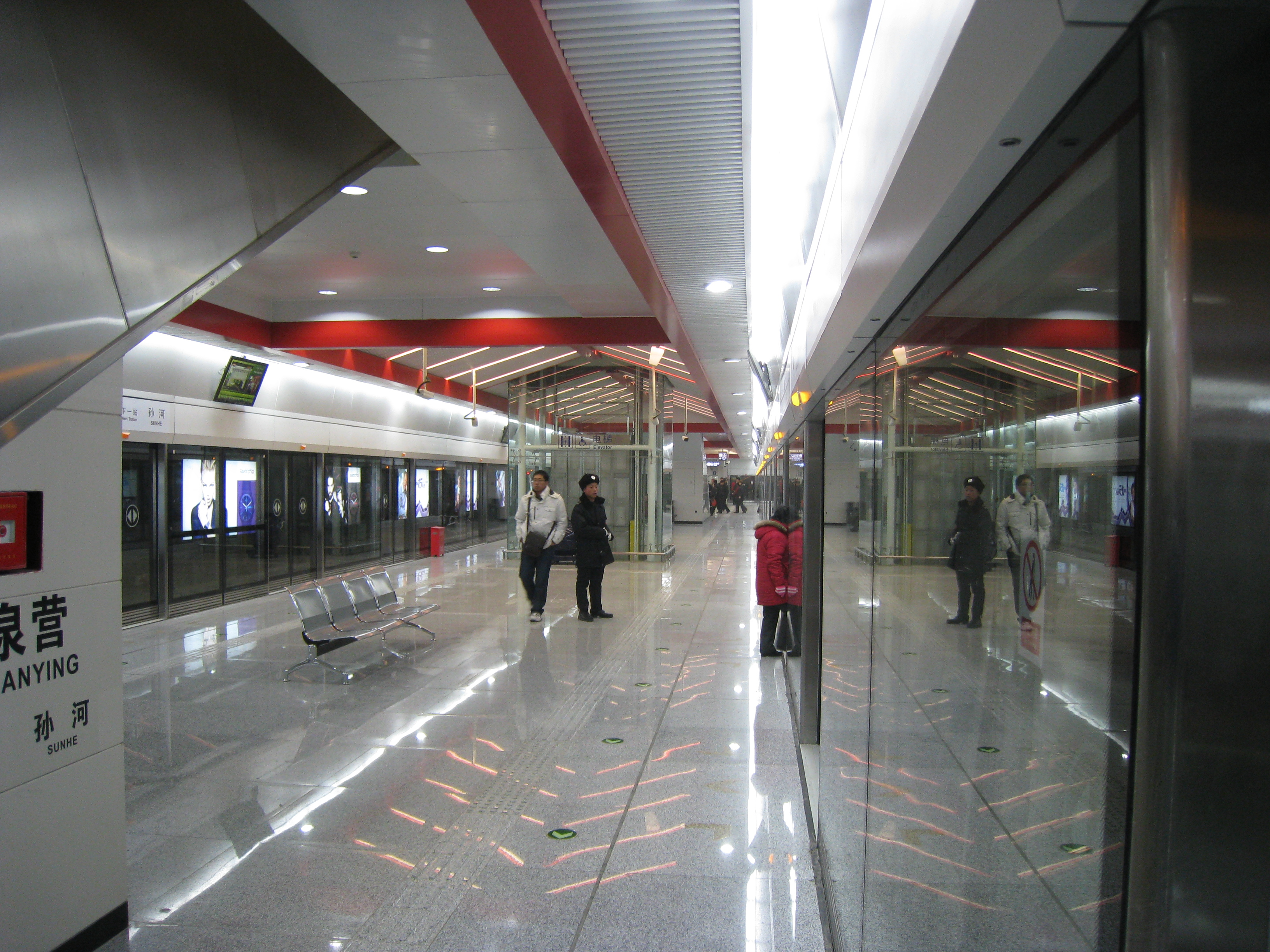 The platform of Maquanying station.